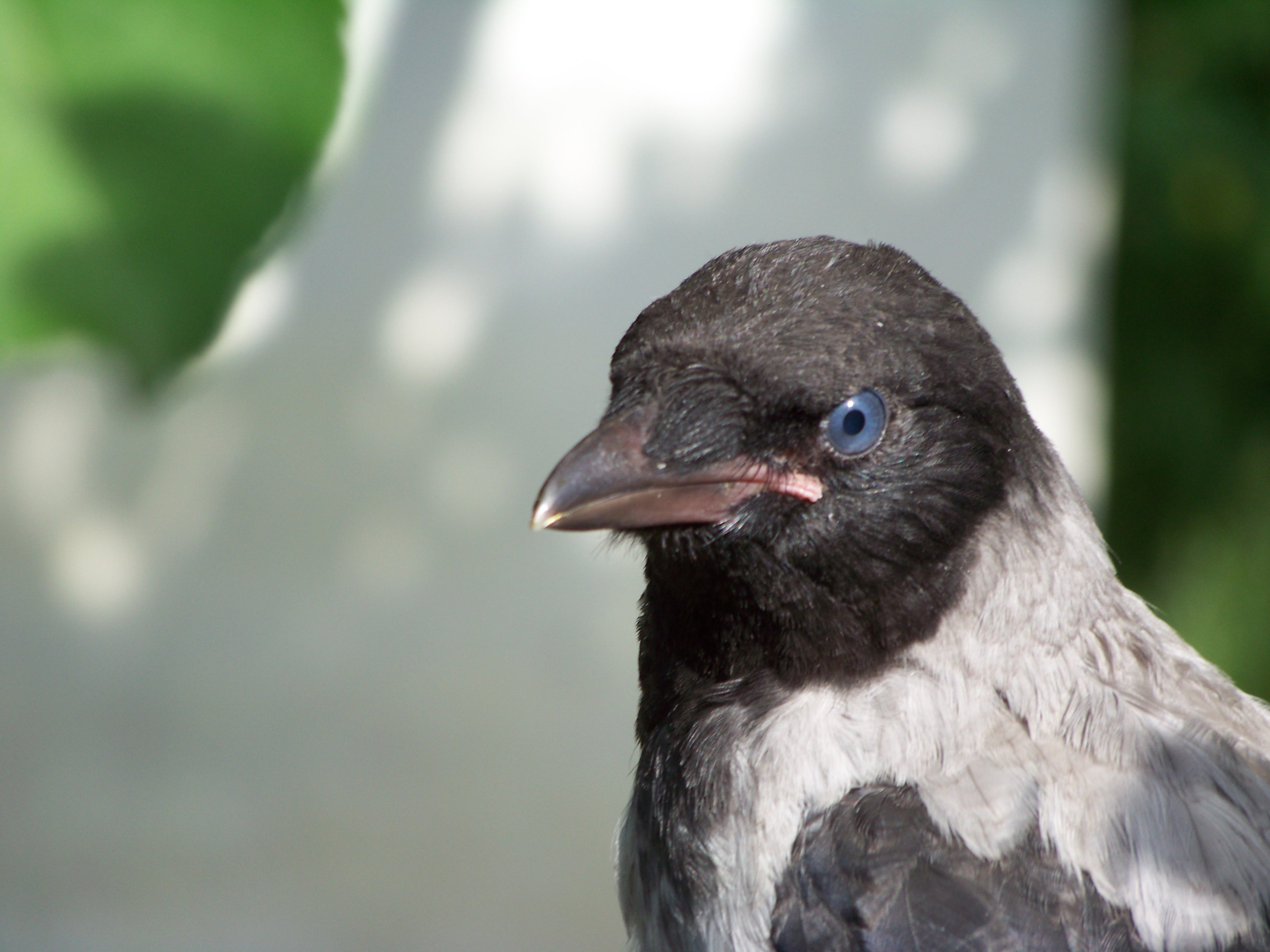 Young Corvus cornix. Photo taken near Ufa city, Russia